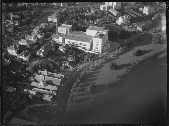 An aerial view of the Emu Brewery in Perth, Western Australia in 1938.